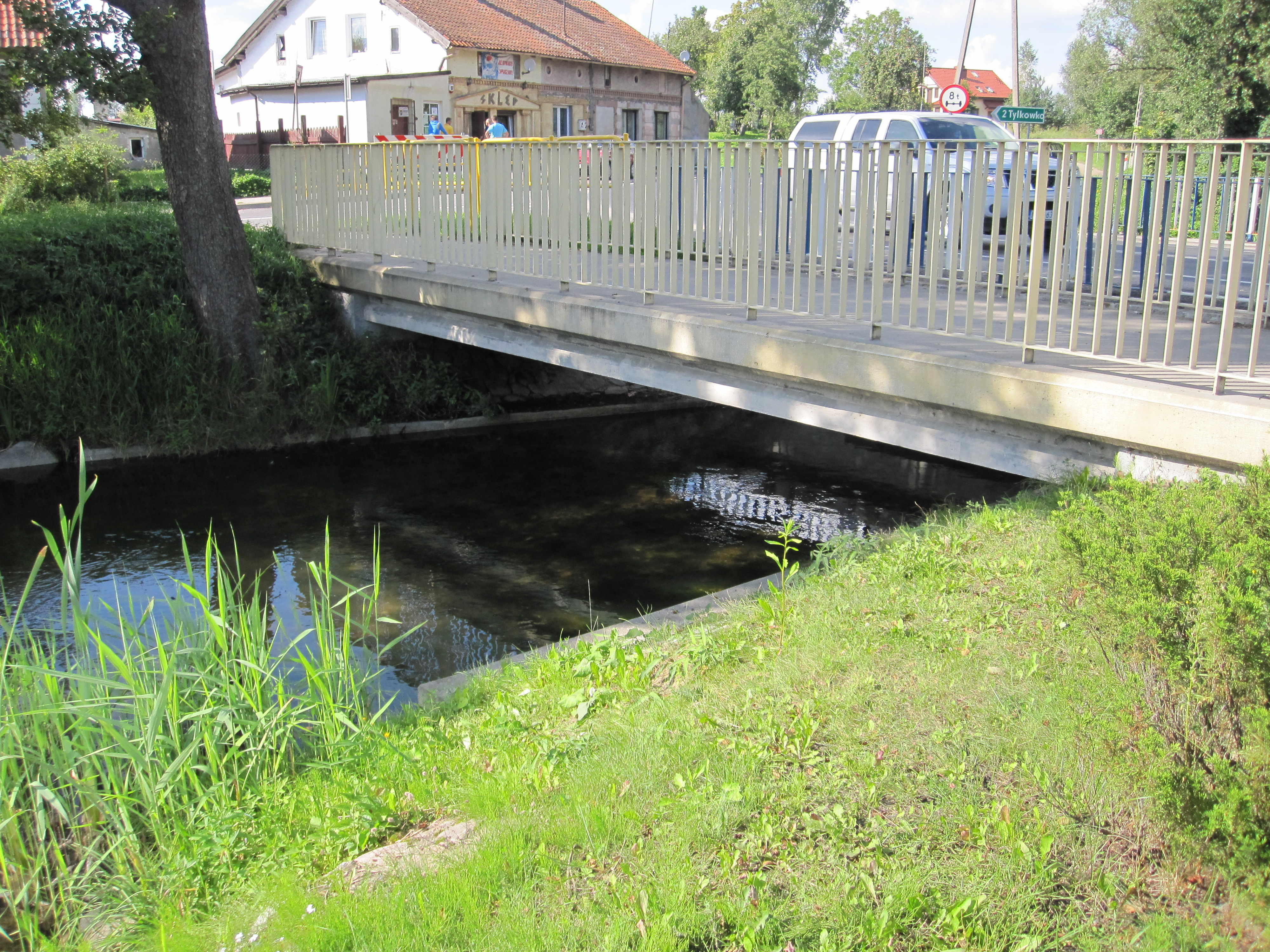 Tylkowo - Bridge over the river Tylkówka